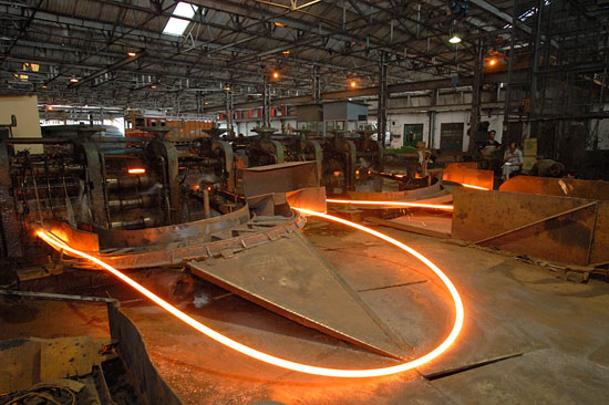 Production of TMT bars in Shyamnagar manufacturing unit of Ramsarup Industries Limited.